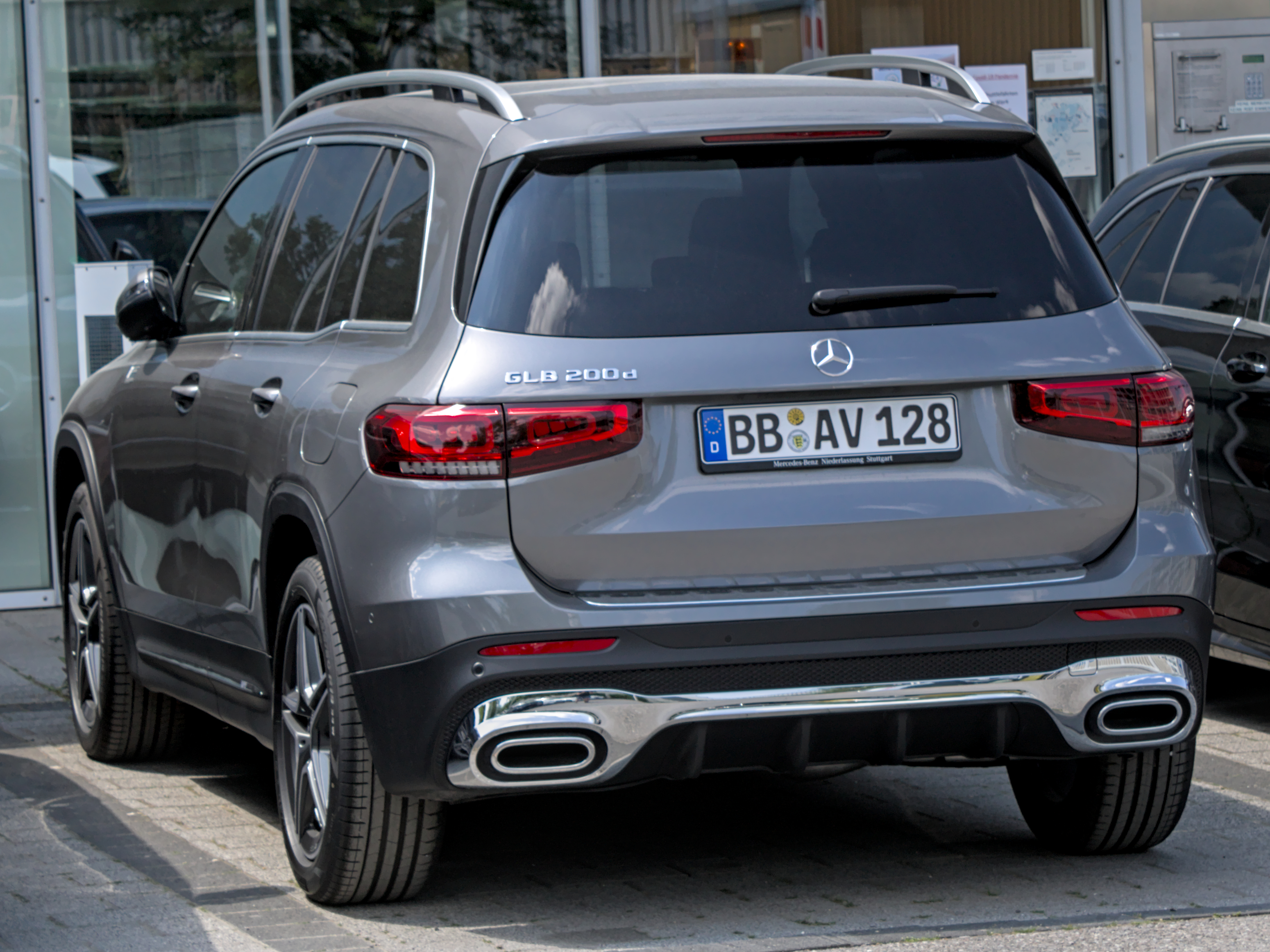 Mercedes-Benz_X247 in Böblingen